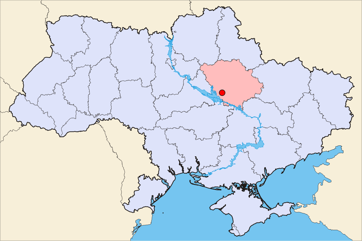 Description = Hlobyne geographical position Source = own work, Skluesener Date = 21.01.2006 Author = Skluesener Credits = Colours chosen according to a map of steschke